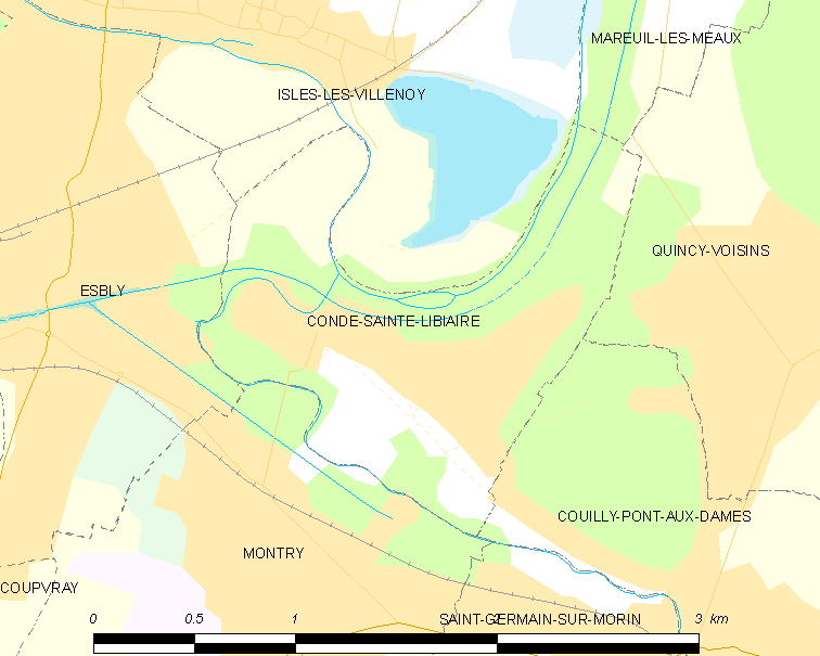 Map of French municipality Condé-Sainte-Libiaire